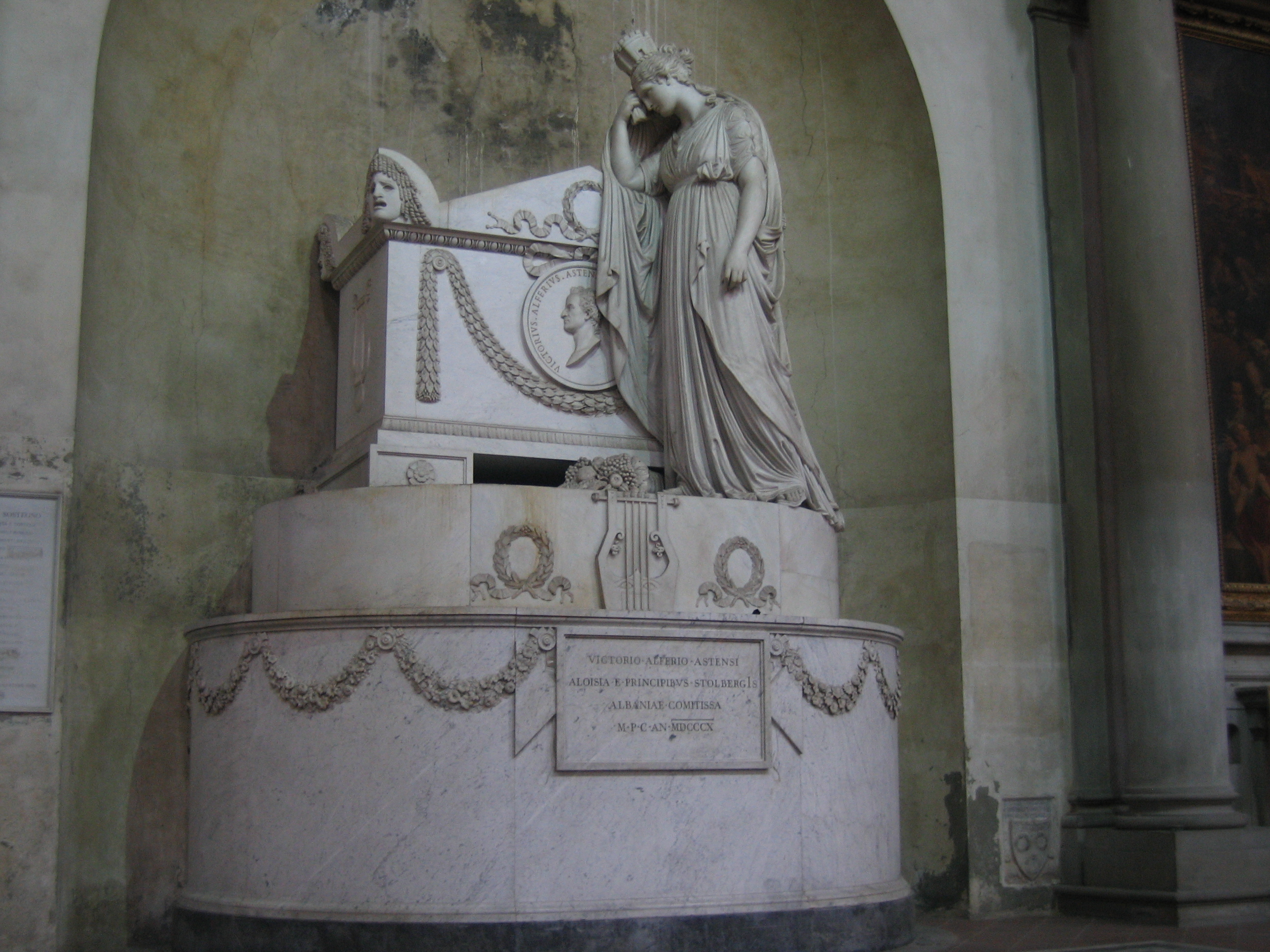 Antonio Canova, Monument to writer Vittorio Alfieri (1810) at Santa Croce church in Florence, Italy.